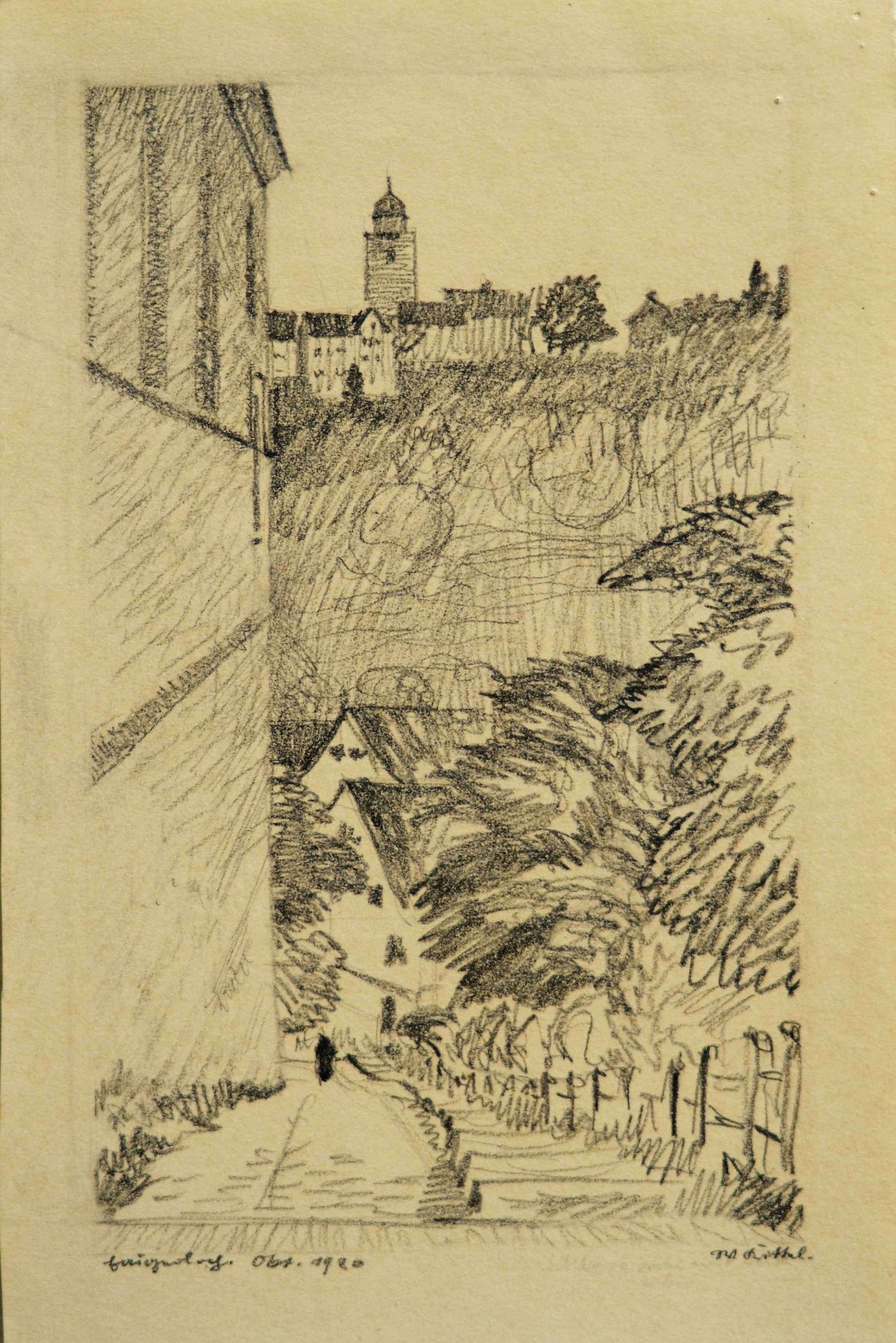 Haigerloch Castle, seen from the city, drawing by architecht Walter Kittel, 1920